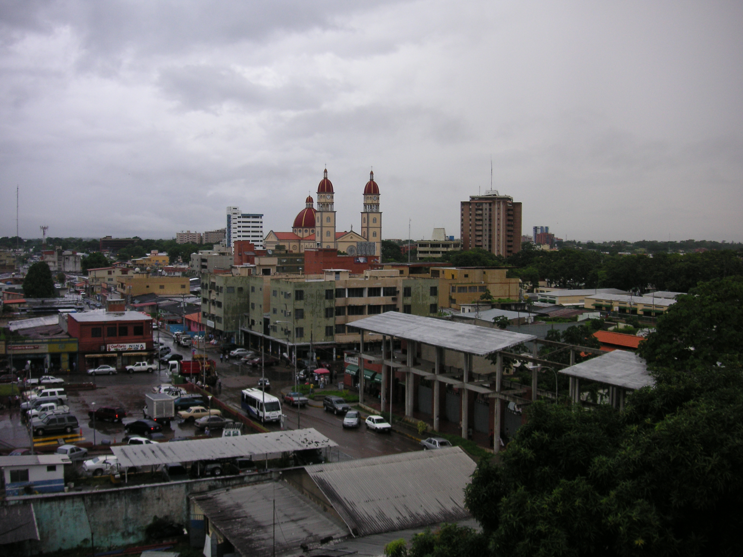 Maturin cathedral in the skyline